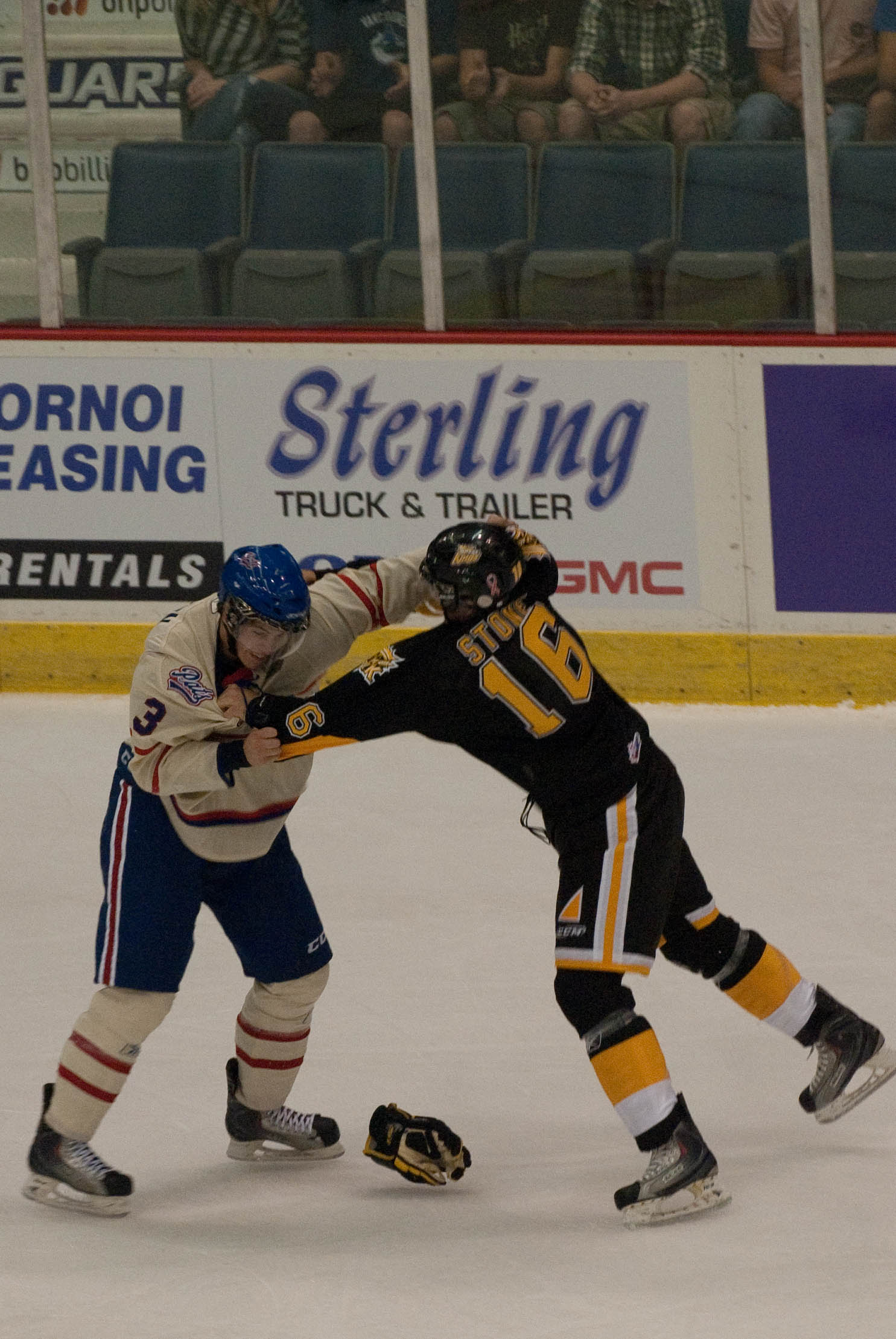 A ice hockey fight between Brandon Davidson of the Regina Pats, and Mark Stone of the Brandon Wheat Kings